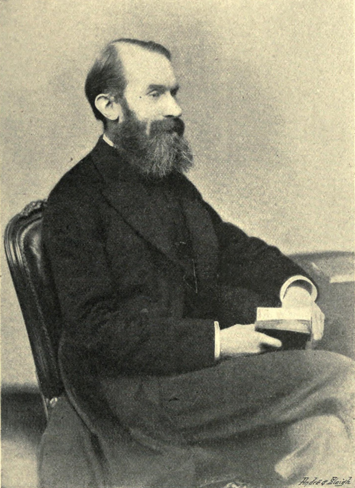 Portrait of Thomas Kelly Cheyne